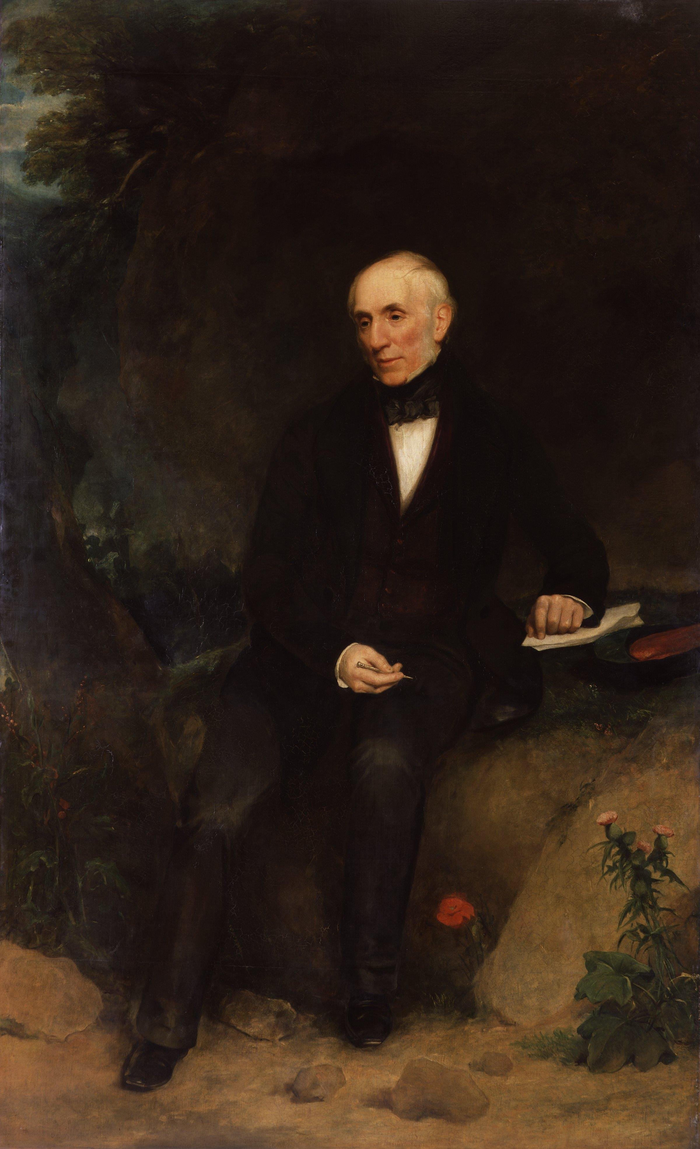 William Wordsworth, by Henry William Pickersgill (died 1875). All images in this batch have been confirmed as author died before 1939 according to the official death date listed by the NPG.